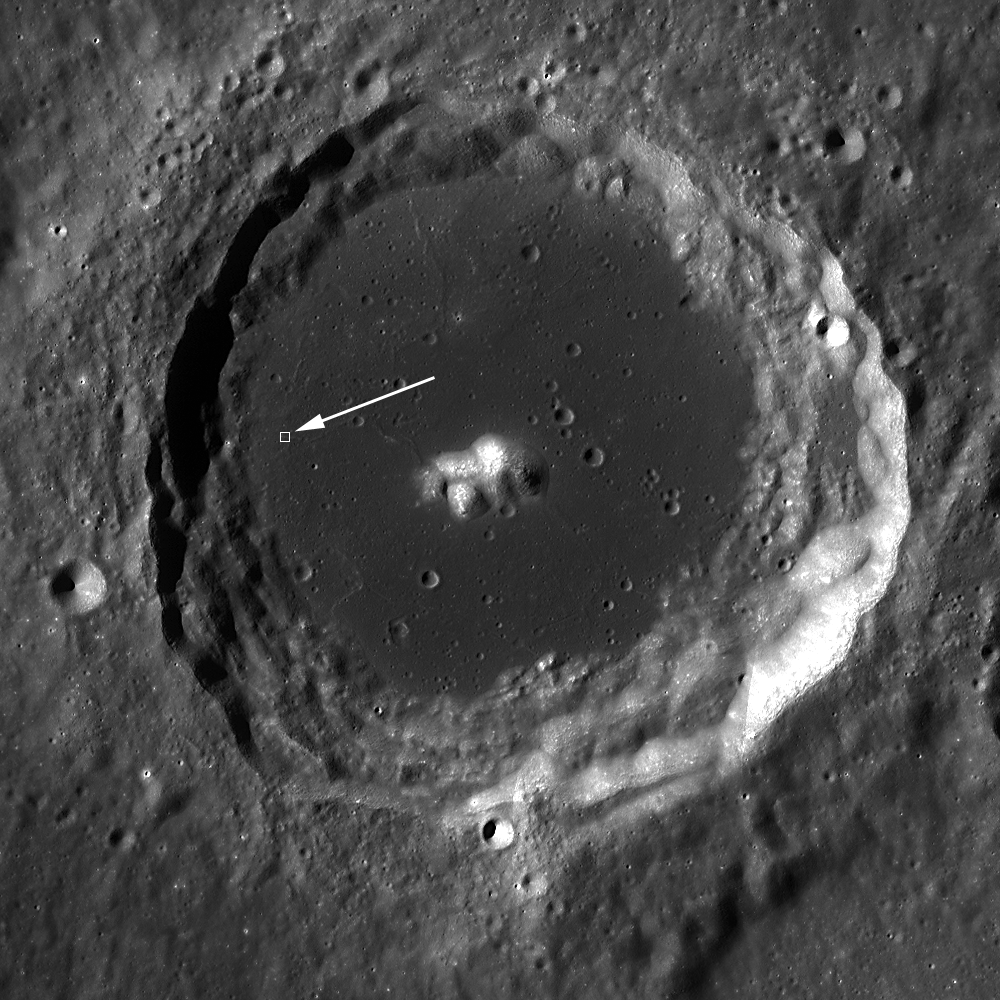 Crater Jenner LROC image